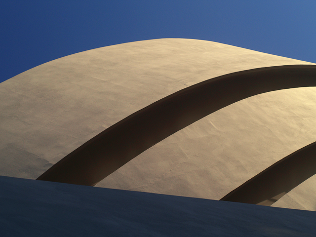 The top of the Guggenheim.